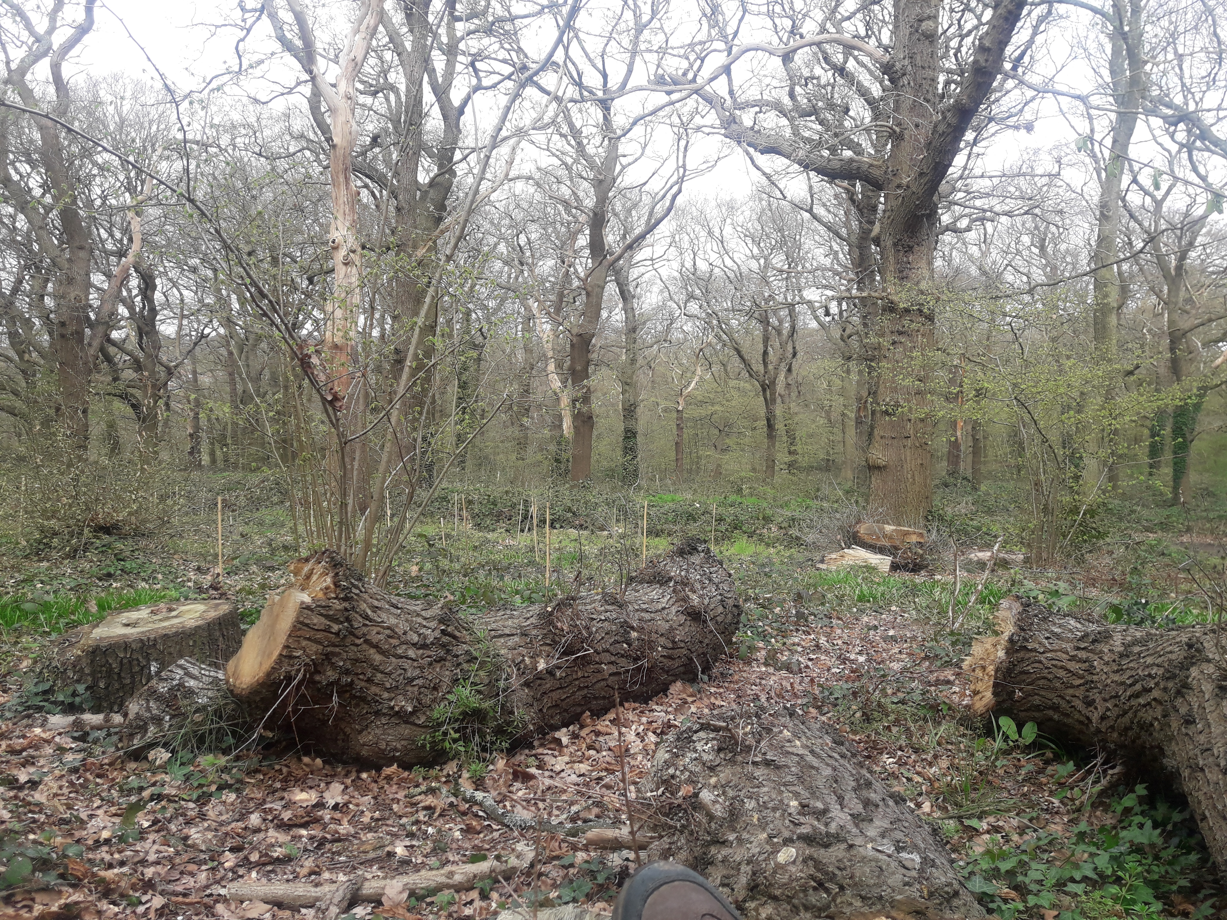 Park photo-Horsenden Hill woods, Perivale/Greenford